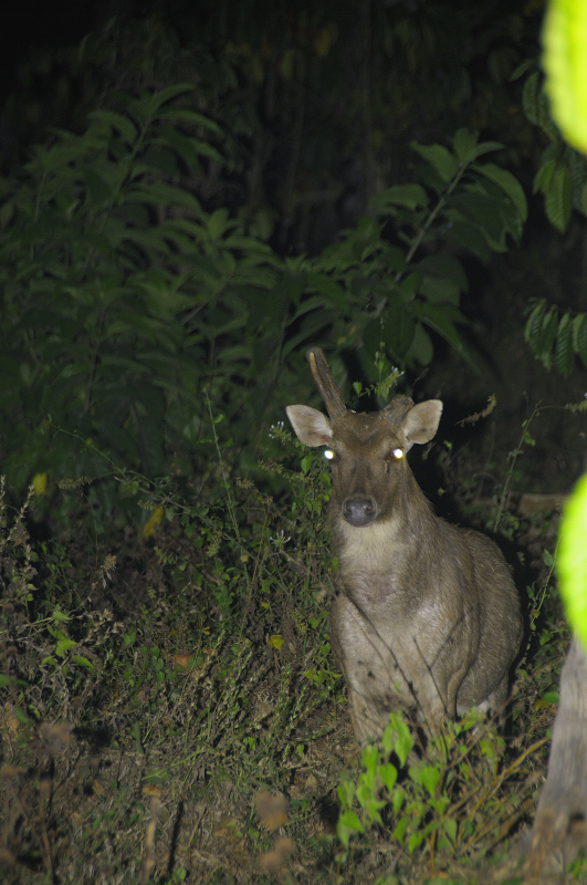 Shot taken at night in Meru Betiri National Park